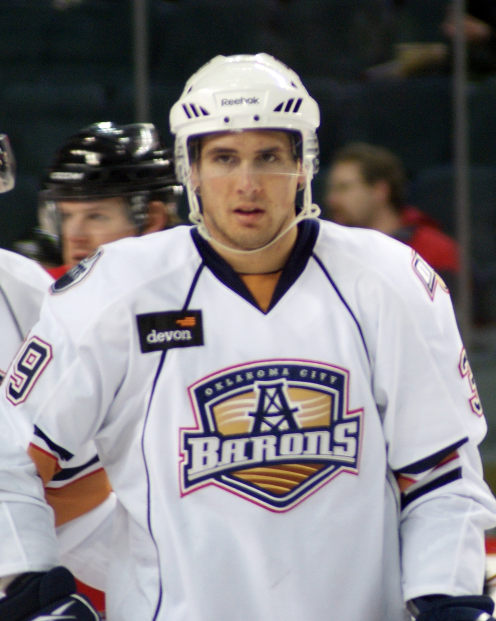 Chris Vande Velde, born March 15, 1987 in Moorhead, Minnesota, is an American professional ice hockey forward. He was selected by the Edmonton Oilers in the 4th round, 97th overall, of the 2005 NHL Entry Draft. Photo was taken on February 18, 2011 during an American Hockey League (AHL) regular season game.